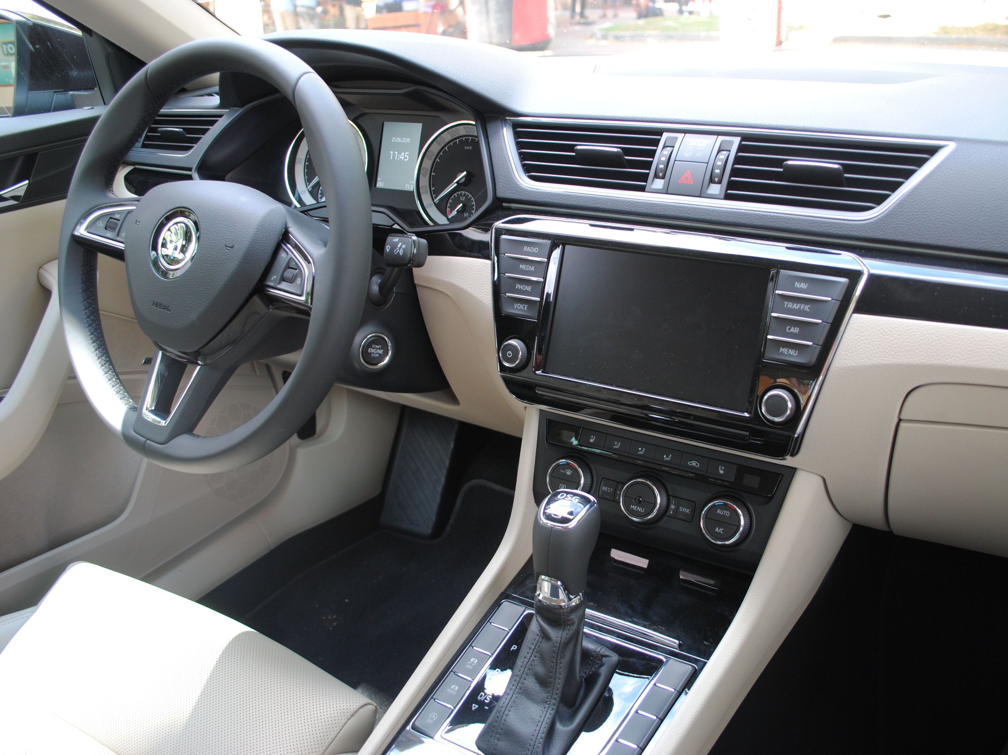 Skoda Superb B8 interior